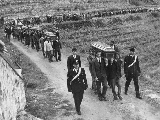 Victims Itavia Elba